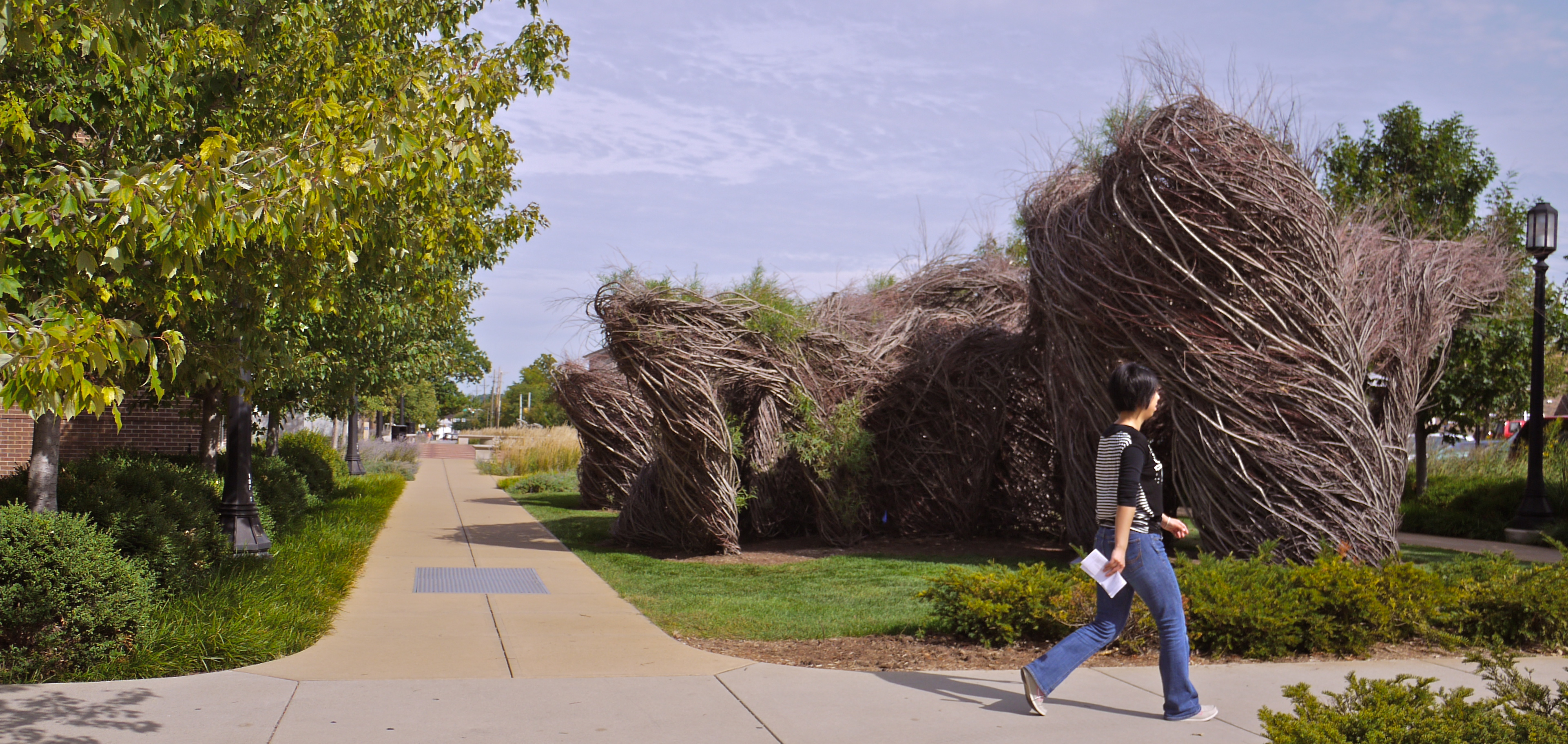 Patrick Dougherty's "Sidewinder," outside Pao Hall @ Purdue